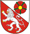 Coat of arms of Veselí nad Lužnicí town, Tábor District, Czech Republic.